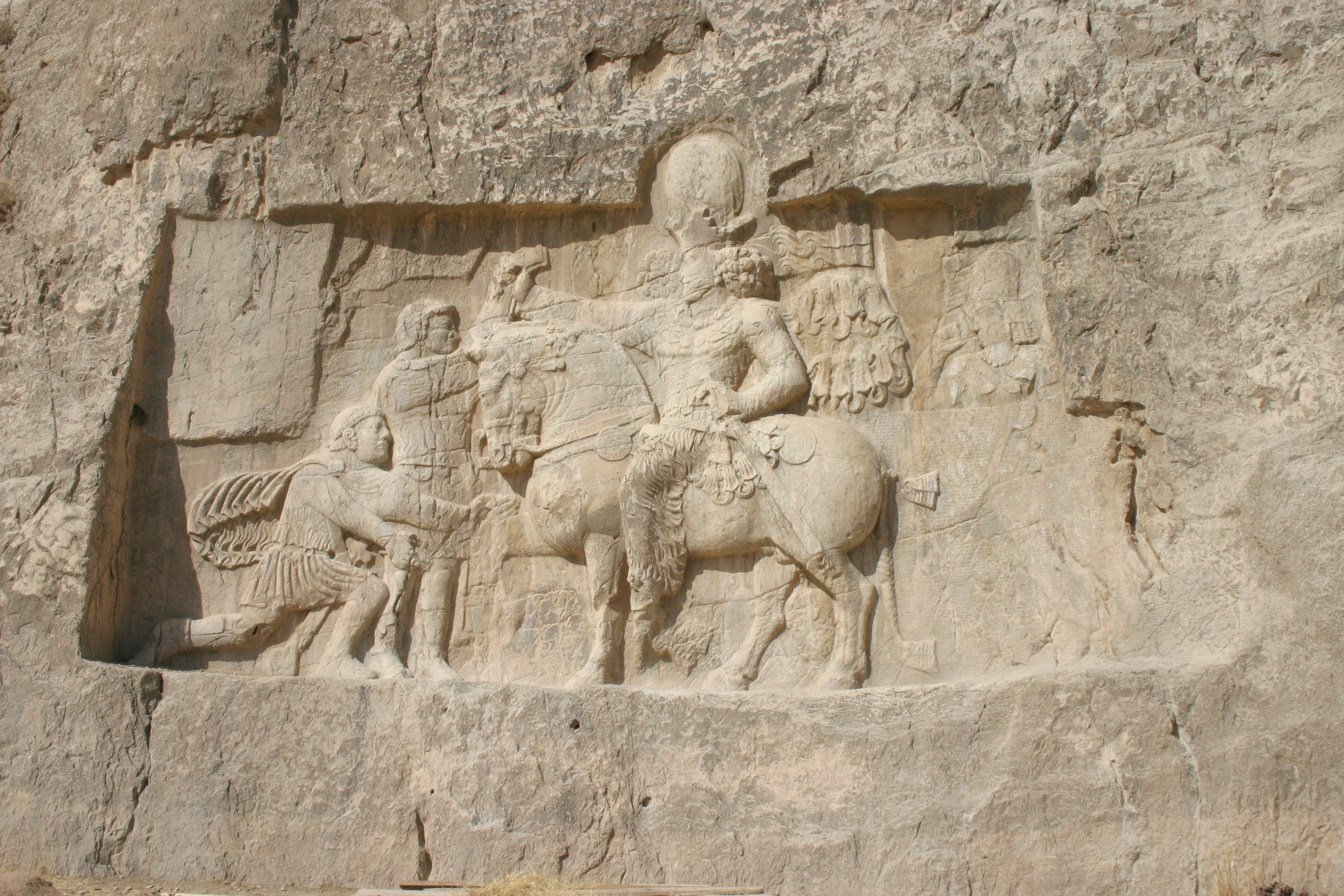 A bas relief sculpture at Naqsh-e Rostam, Iran, depicting the triumph of Shapur I over the Roman Emperor Valerian.